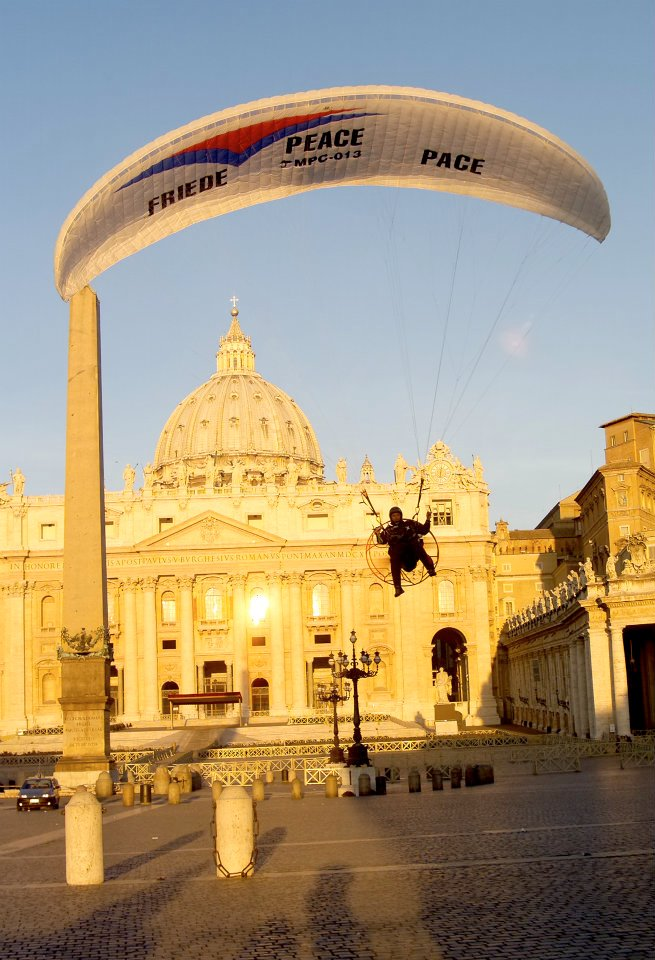 Andi Siebenhofers landing on St. Peter's Square in Rome.